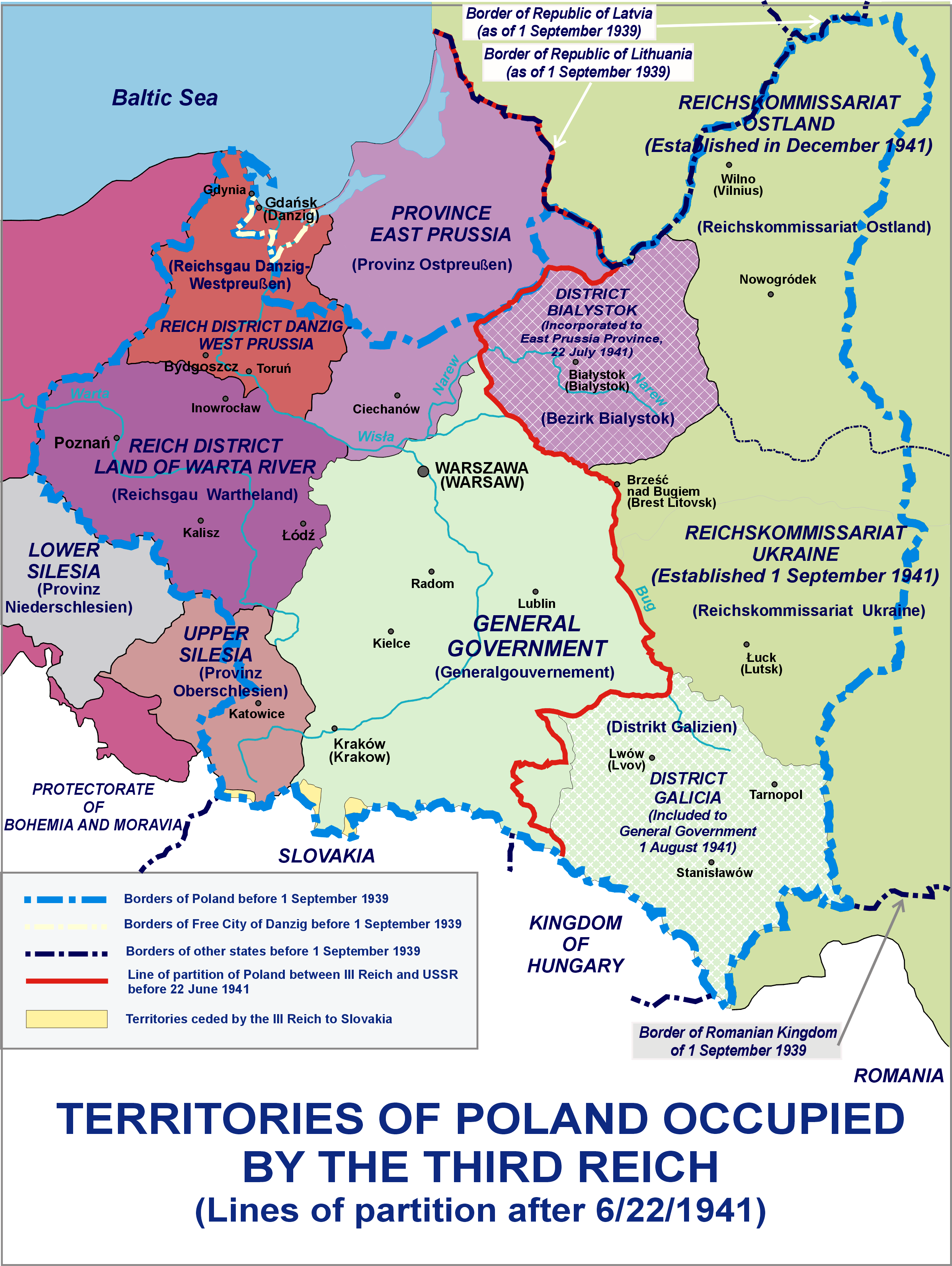 Territories of Poland occupied by the Third Reich - Lines of partition after 6/22/1941